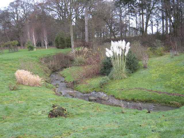 Source description says: "Floral garden and stream near Cliffe Cottages. This photograph shows a cultivated floral garden and stream near Cliffe Cottages. The photograph was taken from the access track (in front of the cottages) looking north towards Home farm."